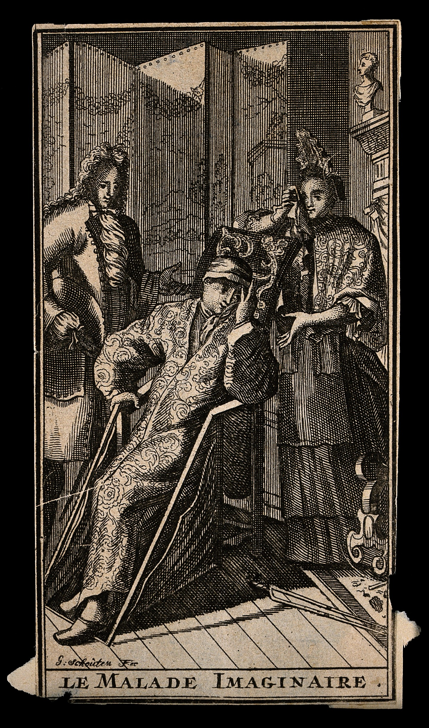 Le malade imaginaire: Argan, a hypochondriac feigning illness in front of Béline, his wife and Dr. Purgon, his physician, in a scene from Molière's play. Etching by G. Schoute after J.B. Molière. Iconographic Collections Keywords: Béline; Argan; Doctor Purgon; Jean-Baptiste Poquelin de Molière; Hubert Peter Schoute